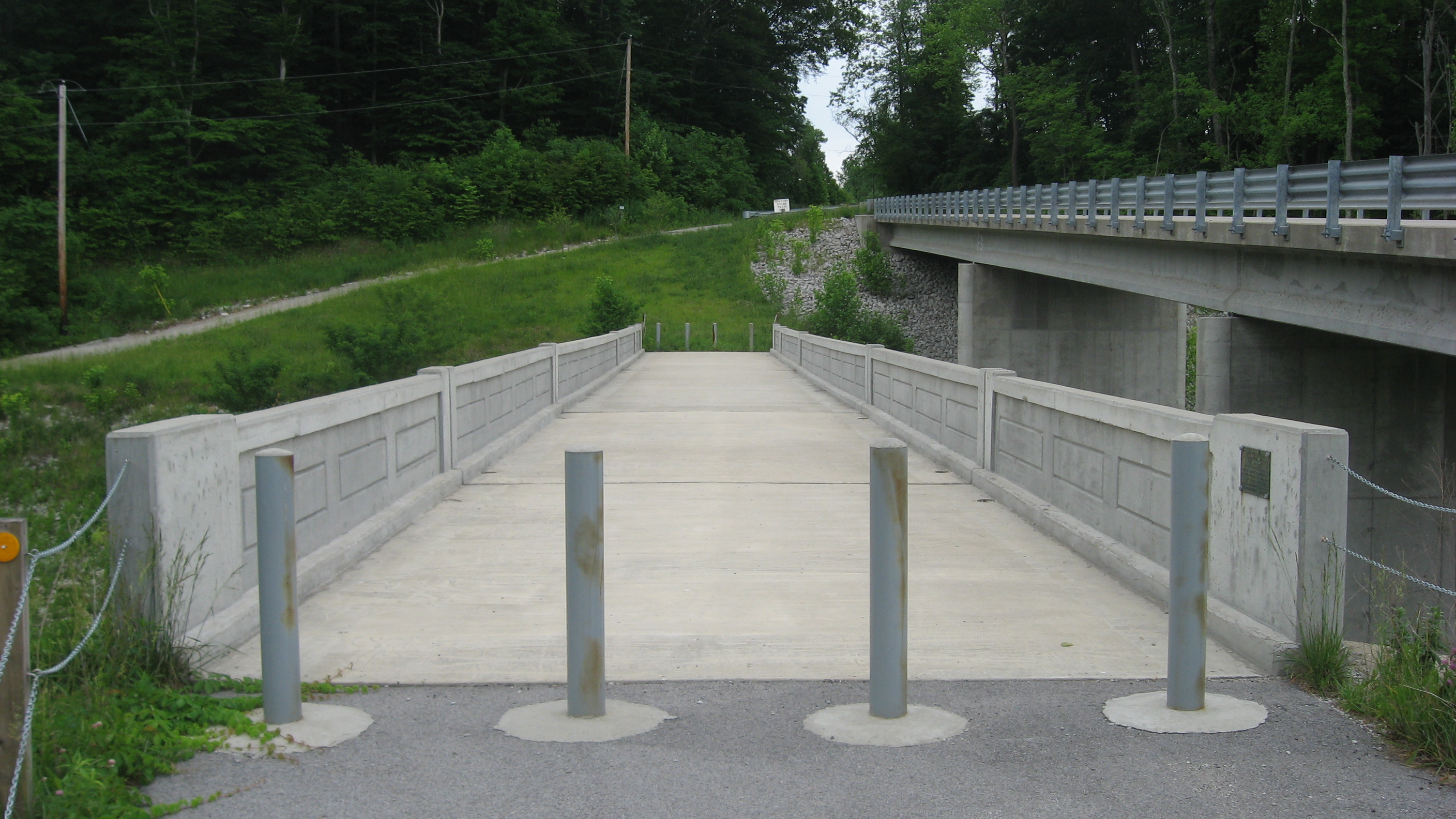 Northern end of the Putnam County Bridge No. 159, which formerly carried County Road 650W over Big Walnut Creek at Reelsville, Indiana, United States. Built in 1929, it is listed on the National Register of Historic Places.